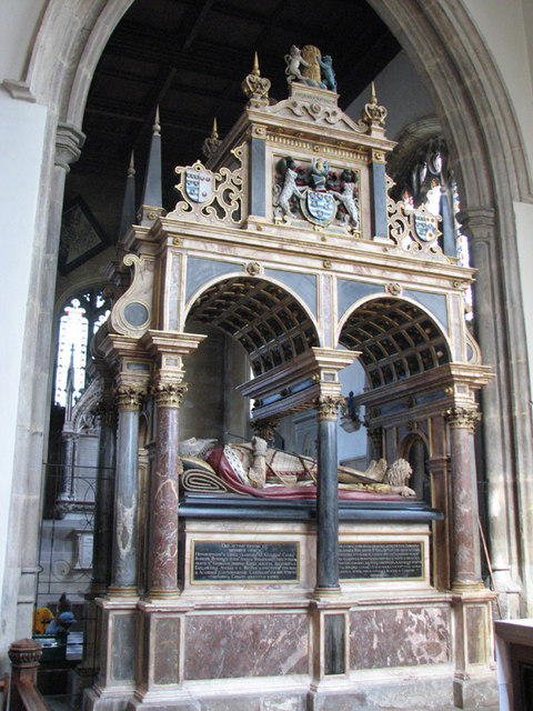 Stamford, St Martin - Tomb of Lord Burghley, d. 1598 The grand tomb of William Cecil, Lord Burghley, Queen Elizabeth's adviser. William Cecil married twice: firstly to Mary Cheke (Cheek), daughter of Sir Peter Cheke of Pirgo and Agnes Duffield; secondly to Mildred Cooke, eldest daughter of Sir Anthony Cooke of Gidea, Essex. Arms: centre: Cecil; dexter Cecil impaling Cheke: Argent, three crescents gules, sinister Cecil impaling Cooke of Giddea Hall, Essex: Or, a chevron compony gules and azure between three cinquefoils of the second (Burke's General Armory, 1884[1])